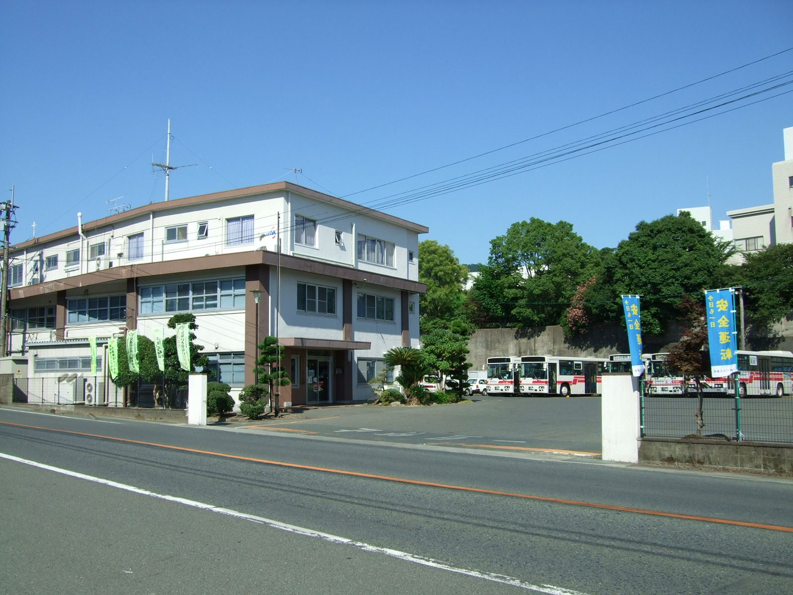 Head office of Nishitetsu bus Kurume